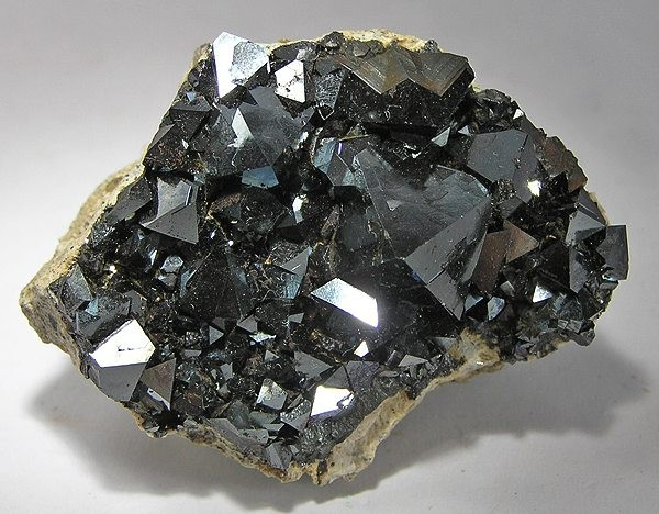 Magnetite Locality: Cerro Huañaquino, Potosí Department, Bolivia (Locality at ) Size: 5.9 x 4.0 x 3.3 cm. These magnetites came out in good quantity, but VERY few had this degree of fineness: the intense, gleaming steely luster, razor sharpness, and absence of the corroded/oxidized crystals that mar so many of these. The large crystal in the center measures 1.5 cm across.